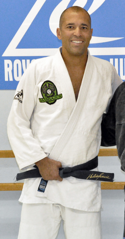 Royce Gracie Demonstrating